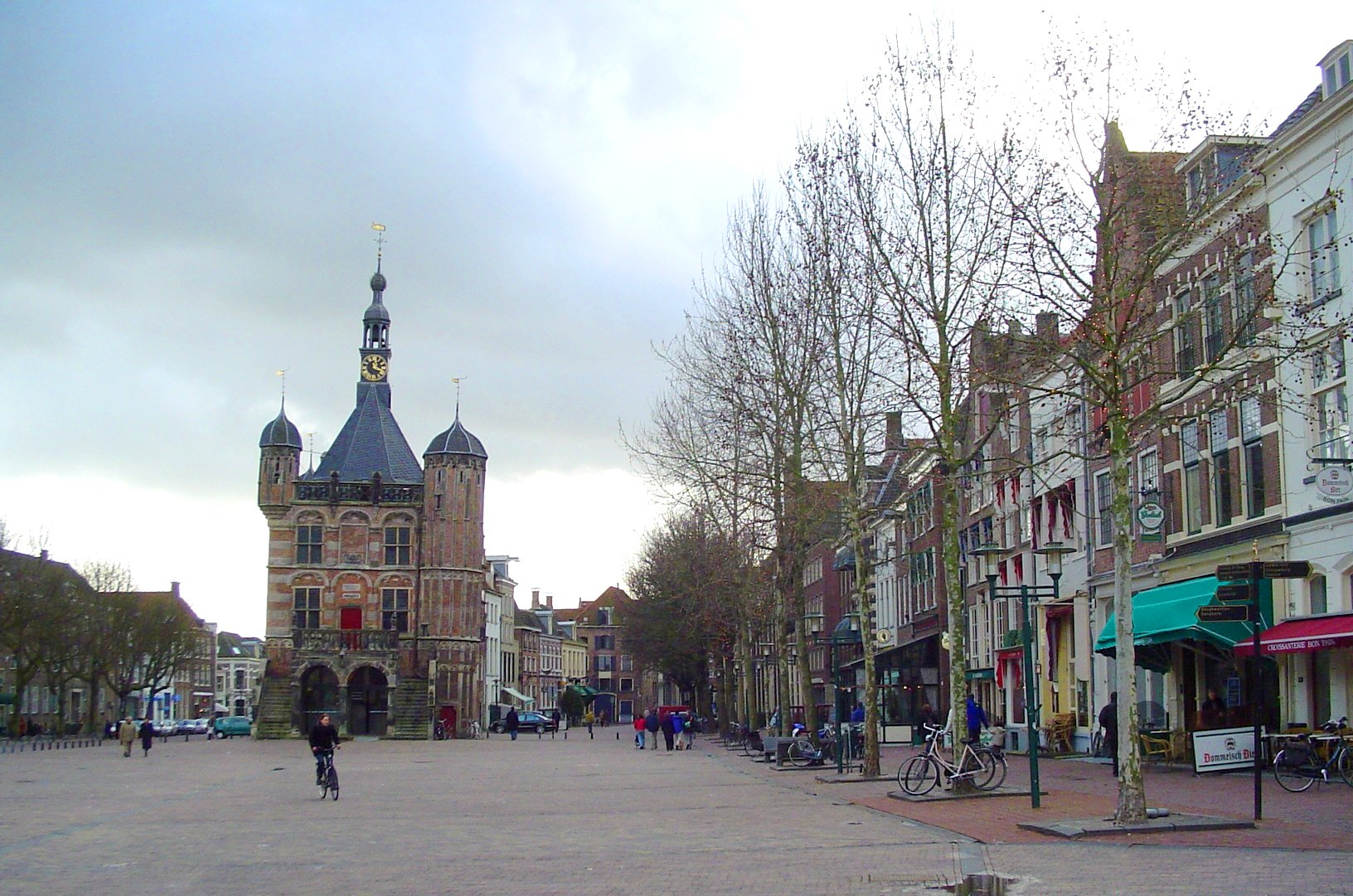 Deventer Waag in Deventer, The Netherlands